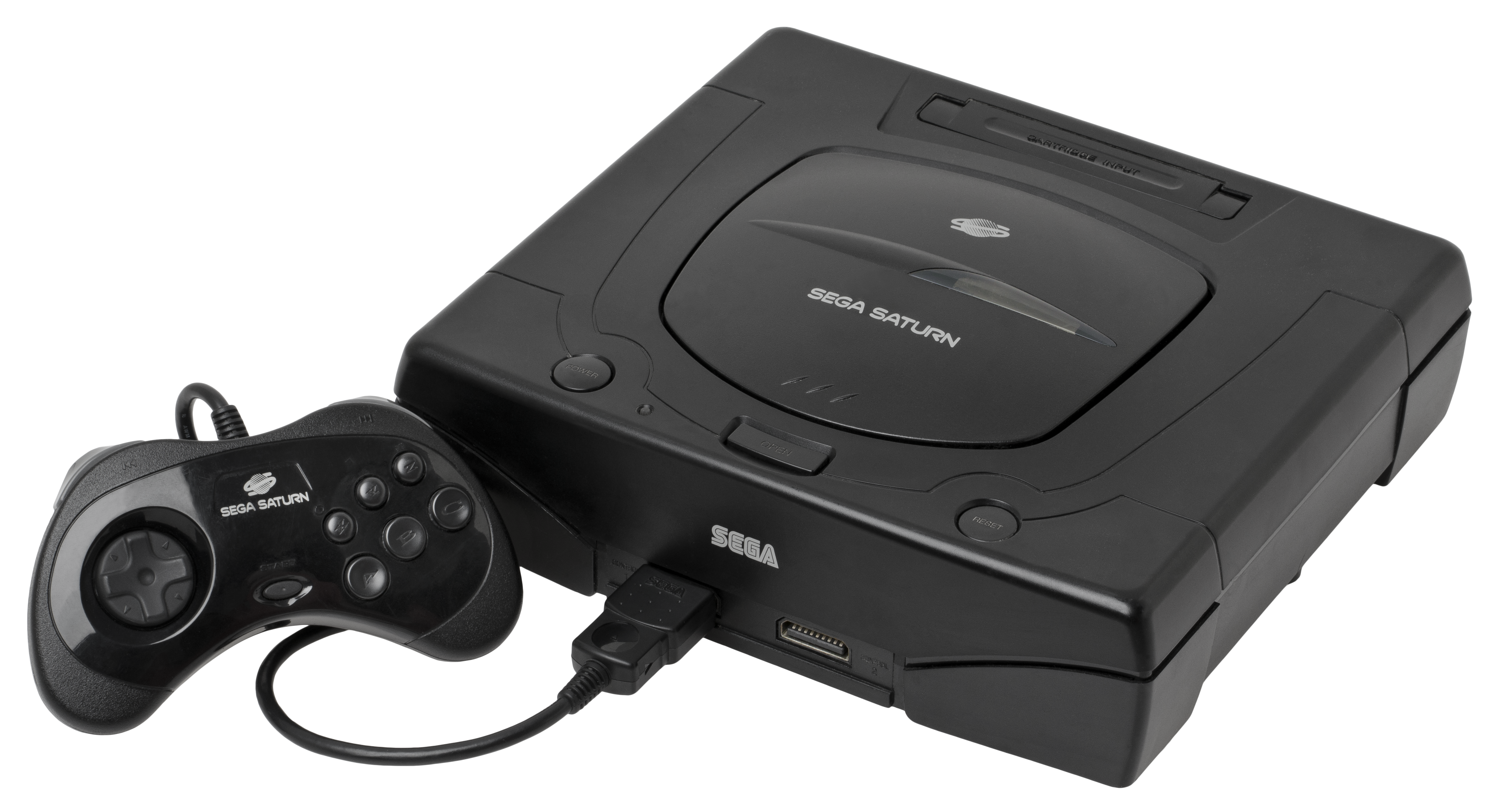 A US Sega Saturn console, shown with type 2 controller.